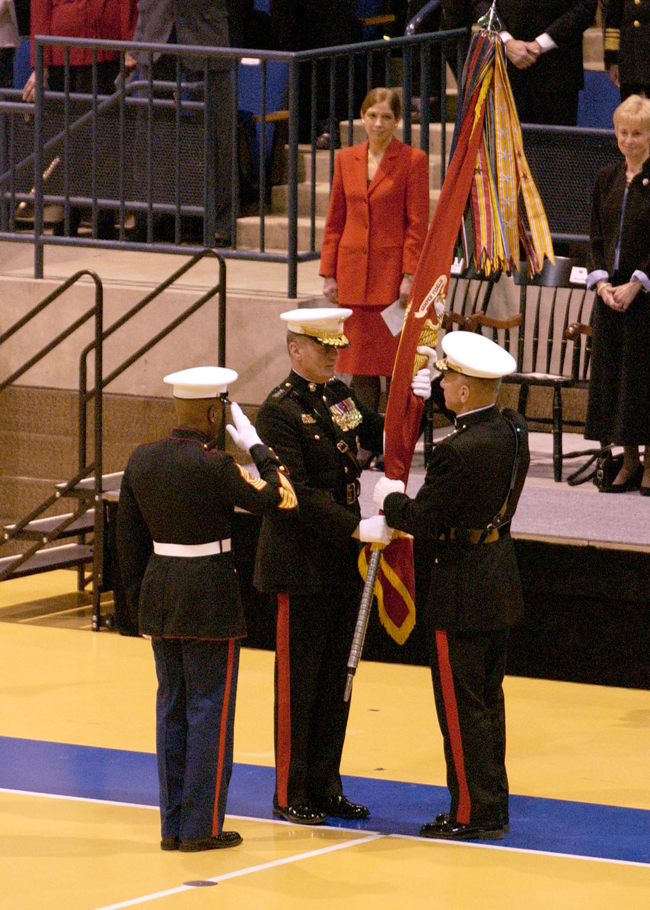 U.S. Marine Corps change of command: Sergeant Major of the Marine Corps Alford McMichael salutes as General James L. Jones, outgoing Commandant of the Marine Corps, passes the Marine Corps colors to General Michael W. Hagee, the new commandant, during a change of command ceremony January 13, 2003 at the United States Naval Academy in Annapolis, Maryland.